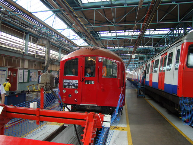 1938 Northern Line Train